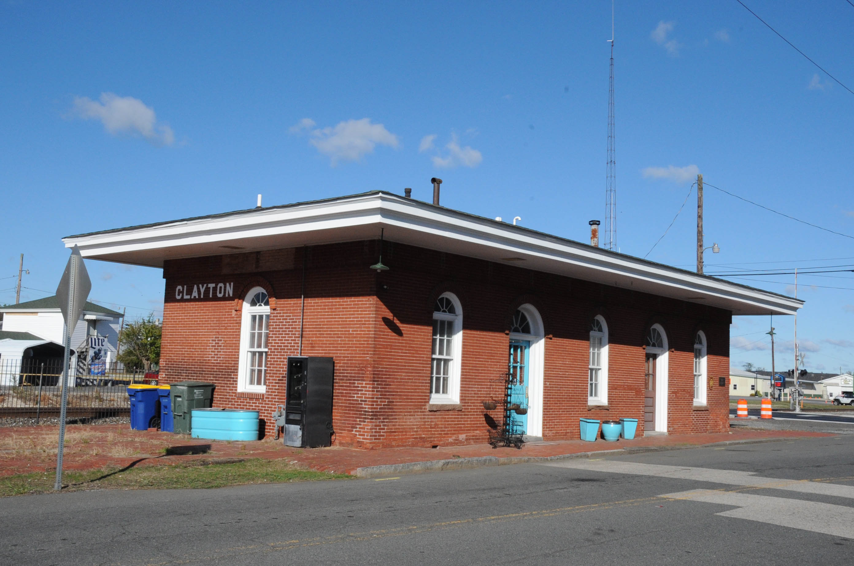 BUILT IN 1855 BY THE DELAWARE RAILROAD AND REMAINED IN SERVICE UNTIL THE 1950’S